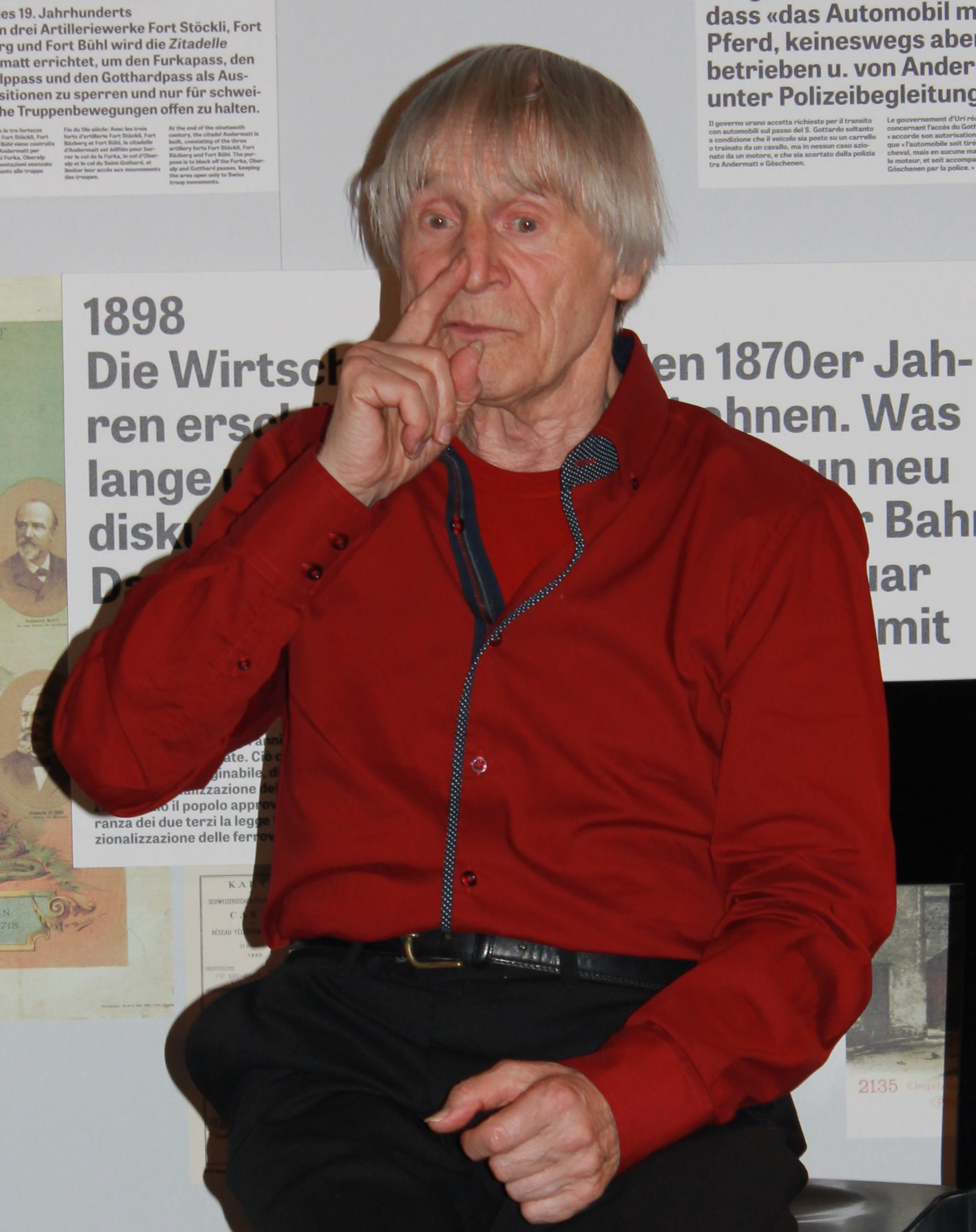 Dimitri on stage in spring 2016. He died in July of the same year.